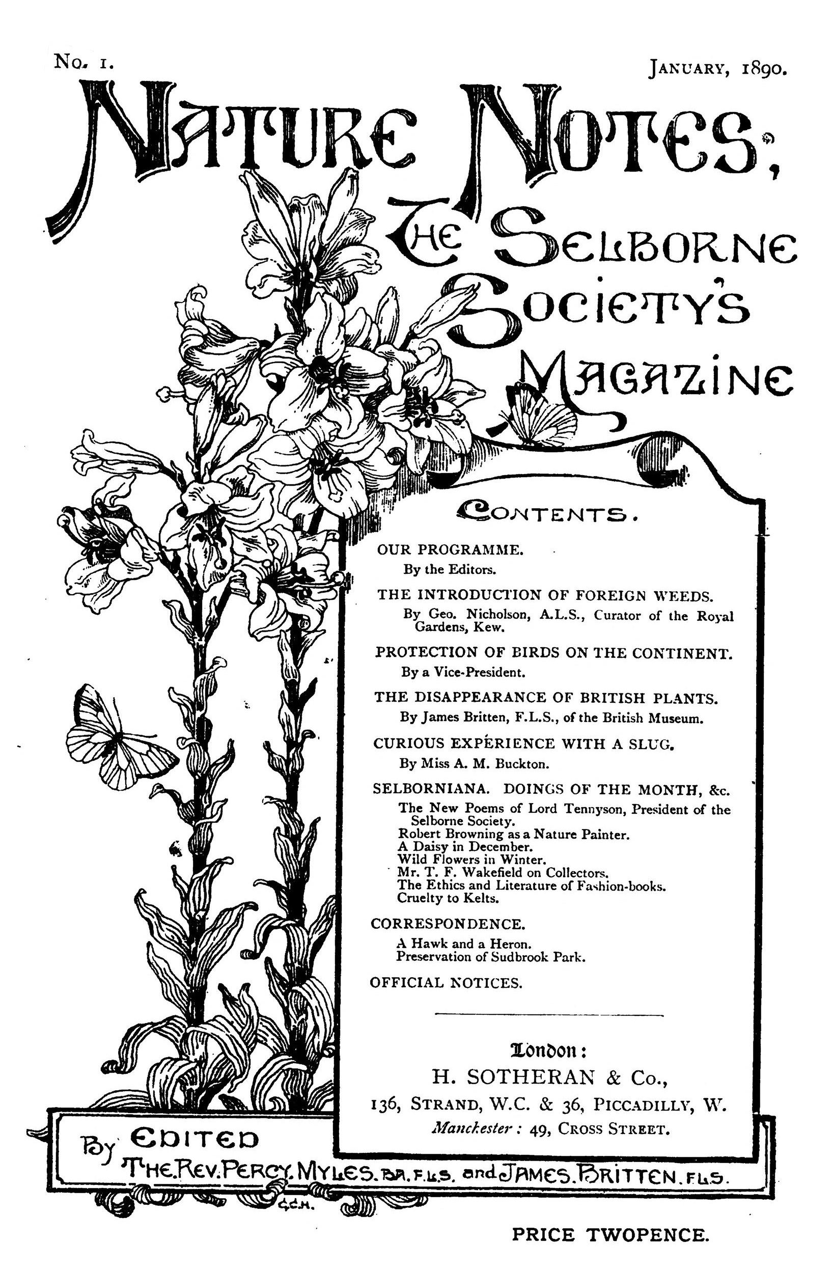 Cover of Nature Notes, journal of the Selborne Society in 1890